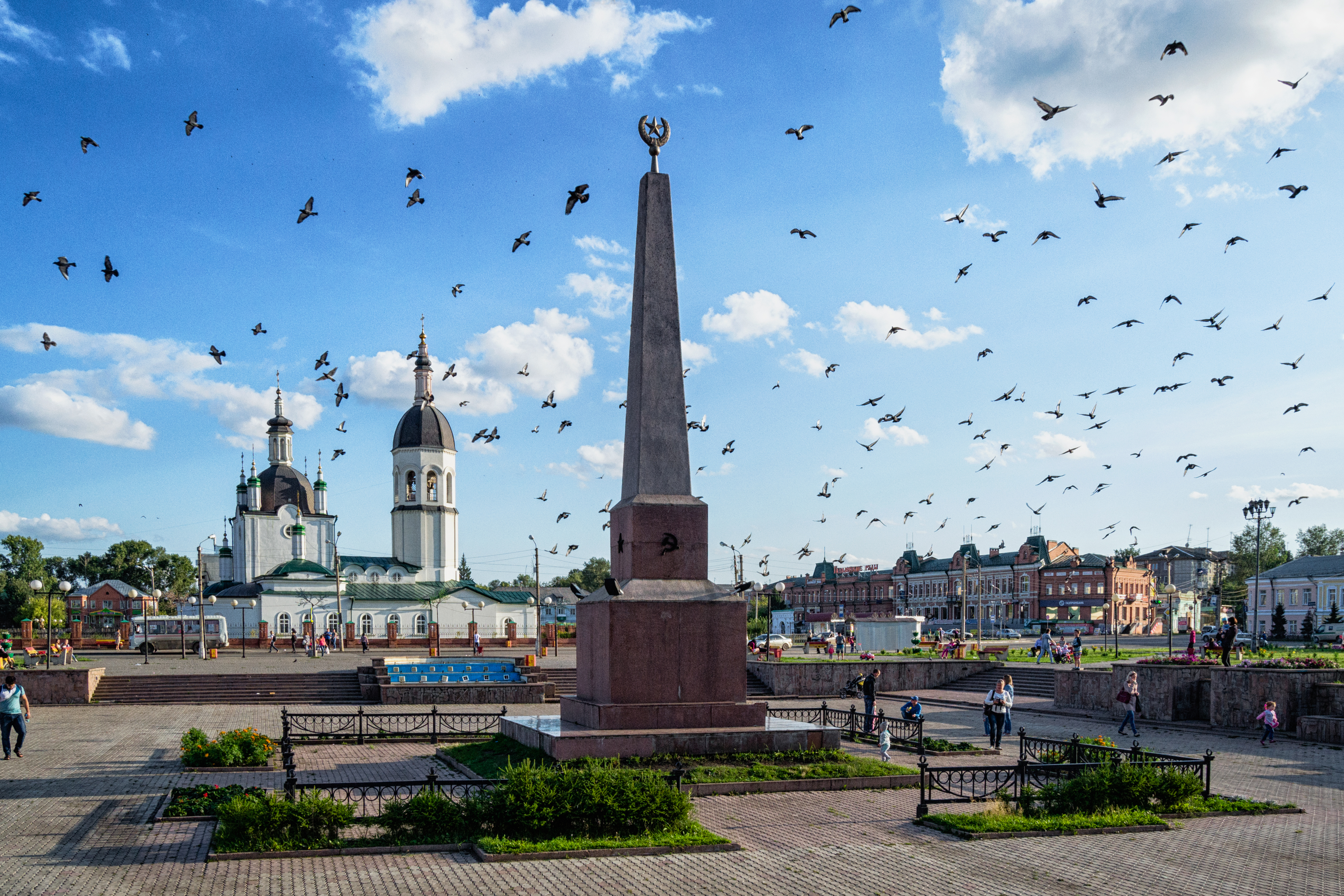 Korosteleva square in Kansk